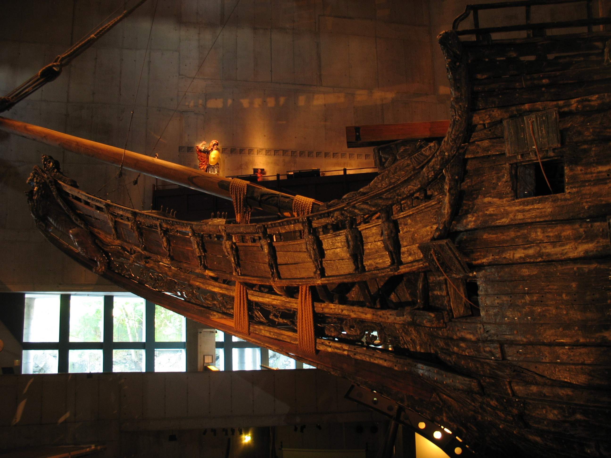 The port side of the richly ornamented beakhead of the 17th century warship Vasa on display at the Vasa Museum in Stockholm.